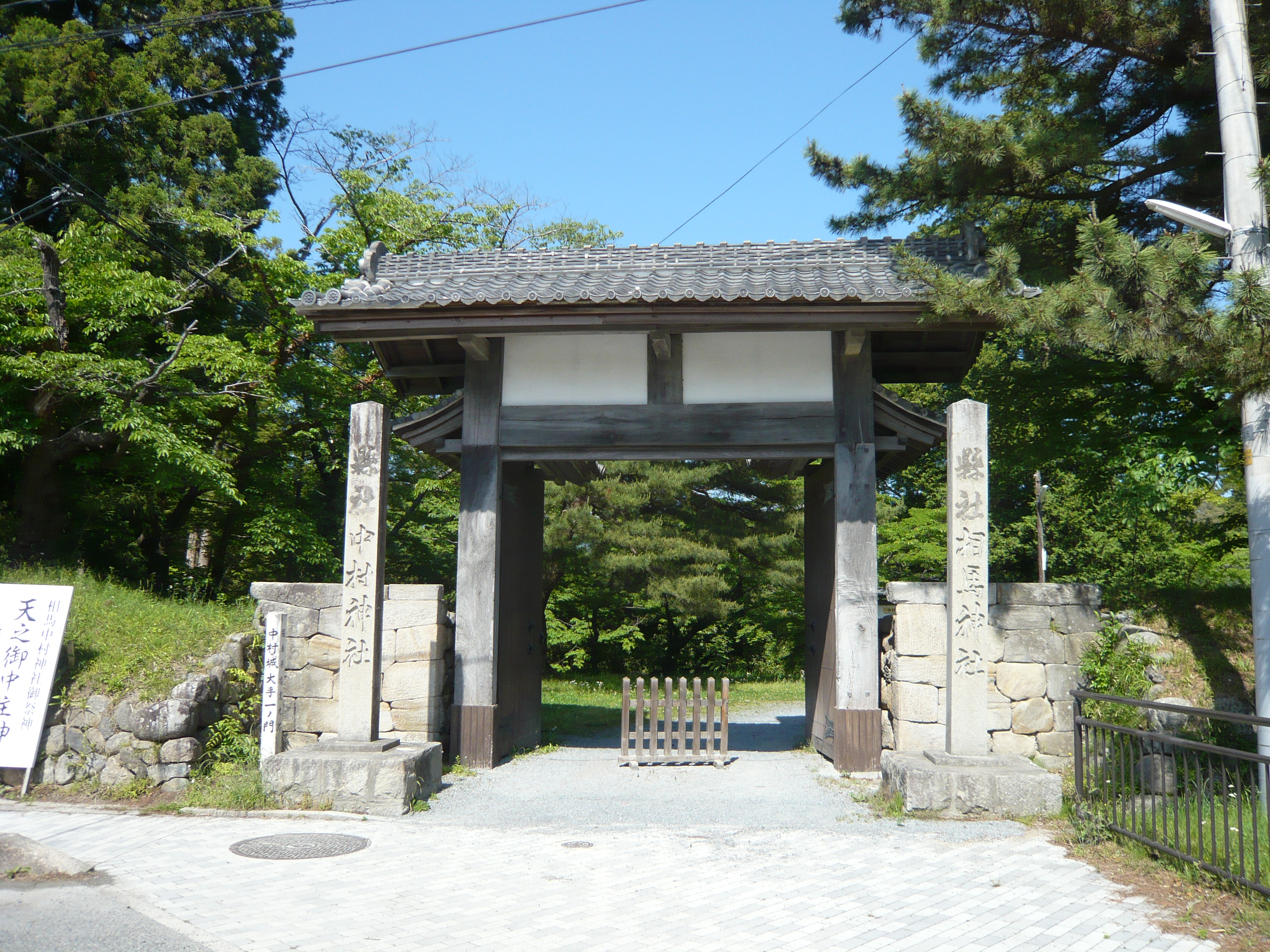 The otemon (front gate) of the Soma Nakamura Castle